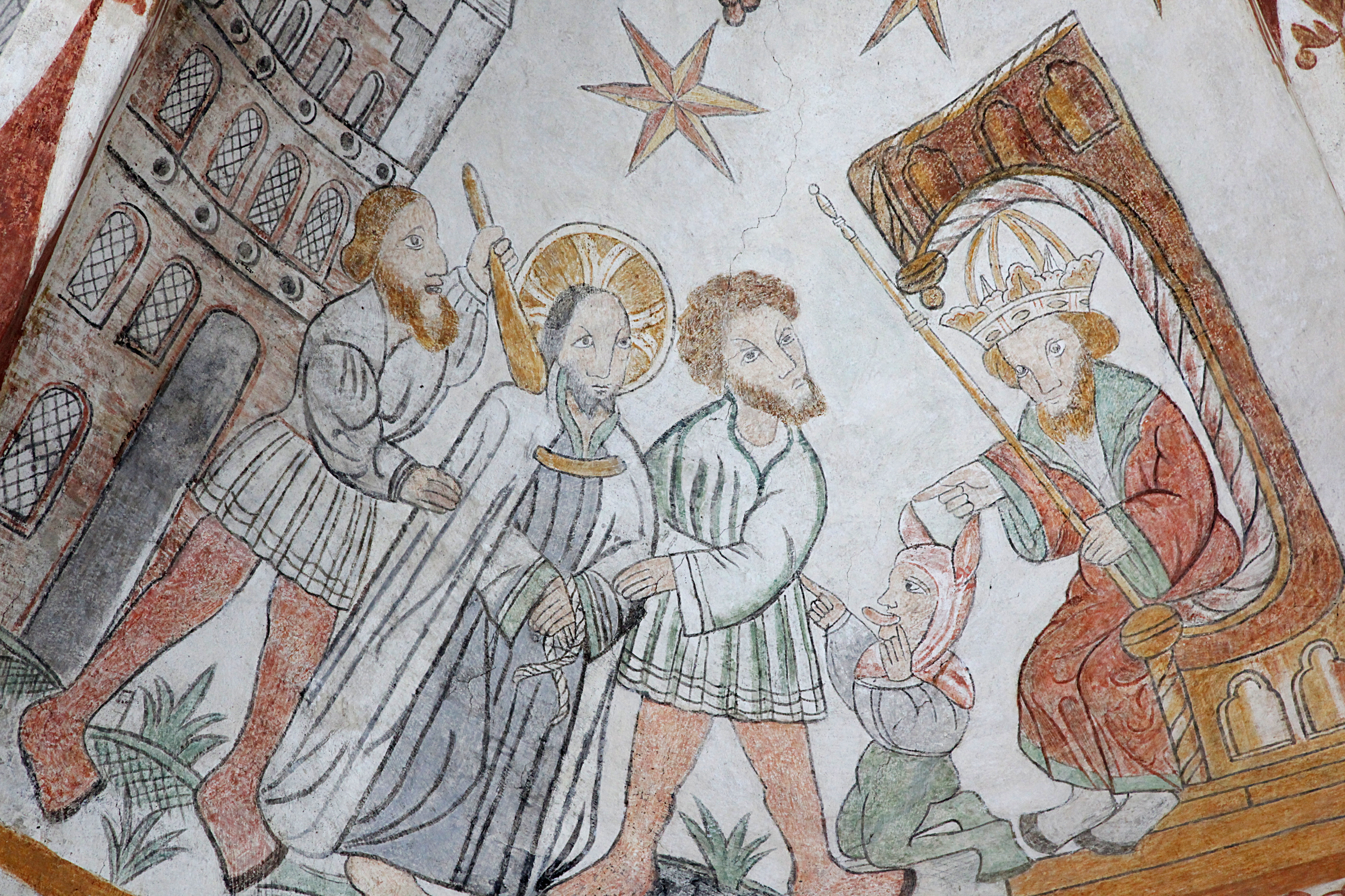 Fresco in Sulsted Kirke just north of Aalborg, Denmark